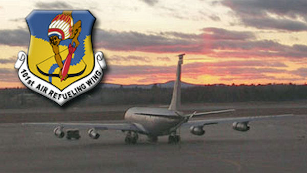 101st Air Refueling Wing KC-135 on ramp at Bangor ANGB Maine with wing emblem